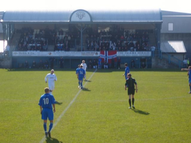 Last ever game played at Firs Park. East Stirlingshire 3-1 Montrose